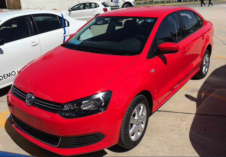 Volkswagen Mexican Vento 2014 Version: Active